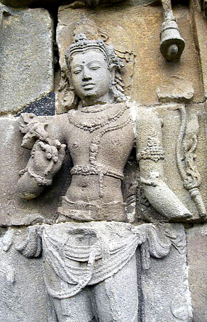 Avalokitesvara holding lotus flower in graceful tribhanga pose. A relief from 8th-9th century Plaosan temple, near Prambanan and Sewu temple, Klaten, central Java, Indonesia.